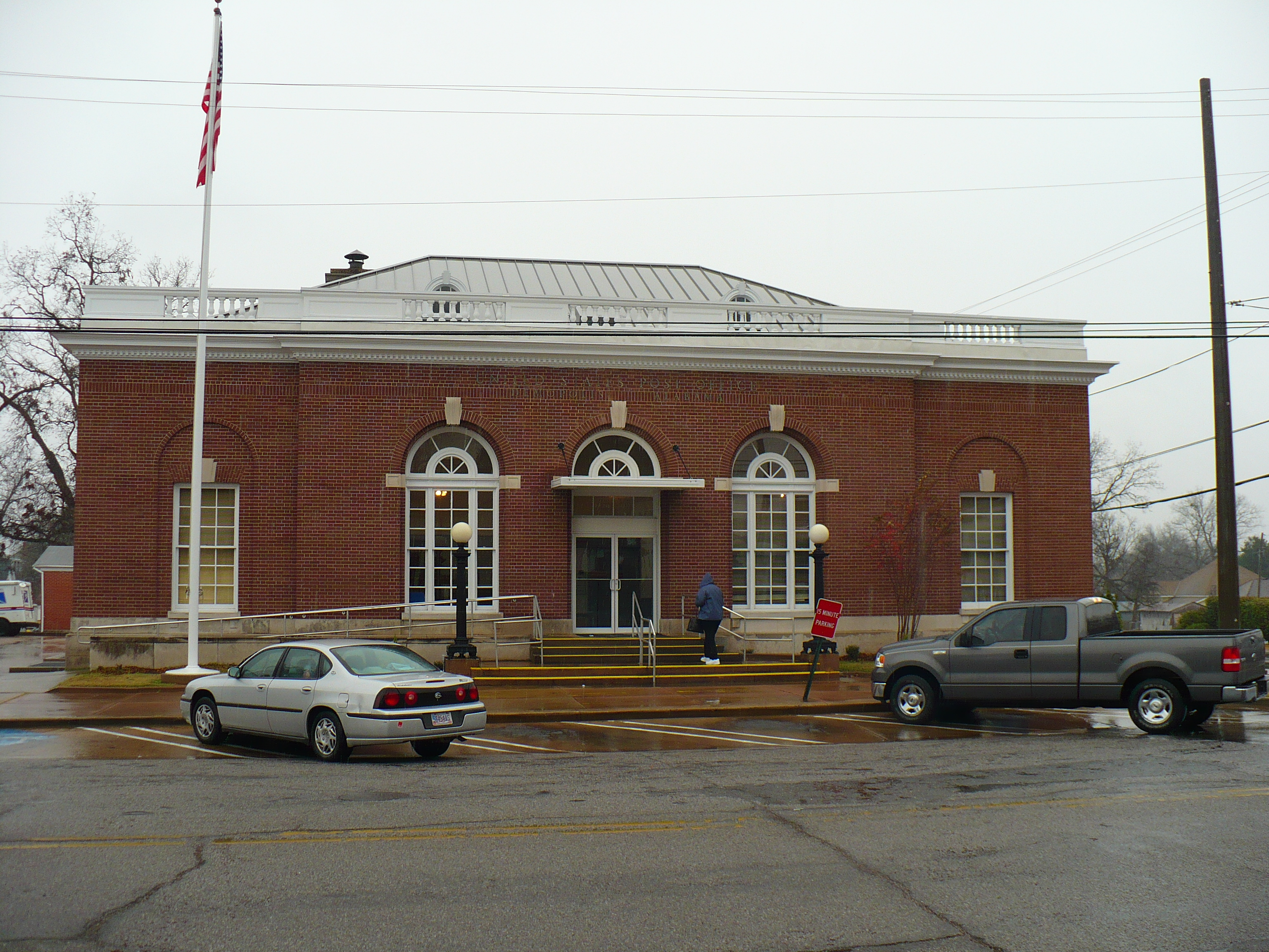 The U.S. Post office in Demopolis, Marengo County, Alabama. On the National Register of Historic Places.